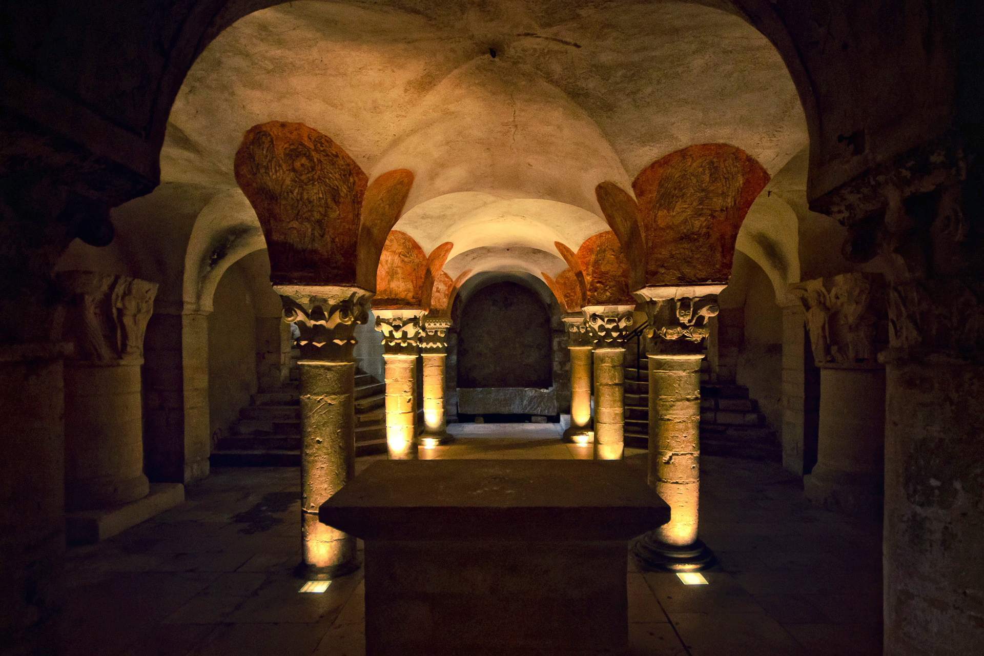 Notre Dame de Bayeux Crypt